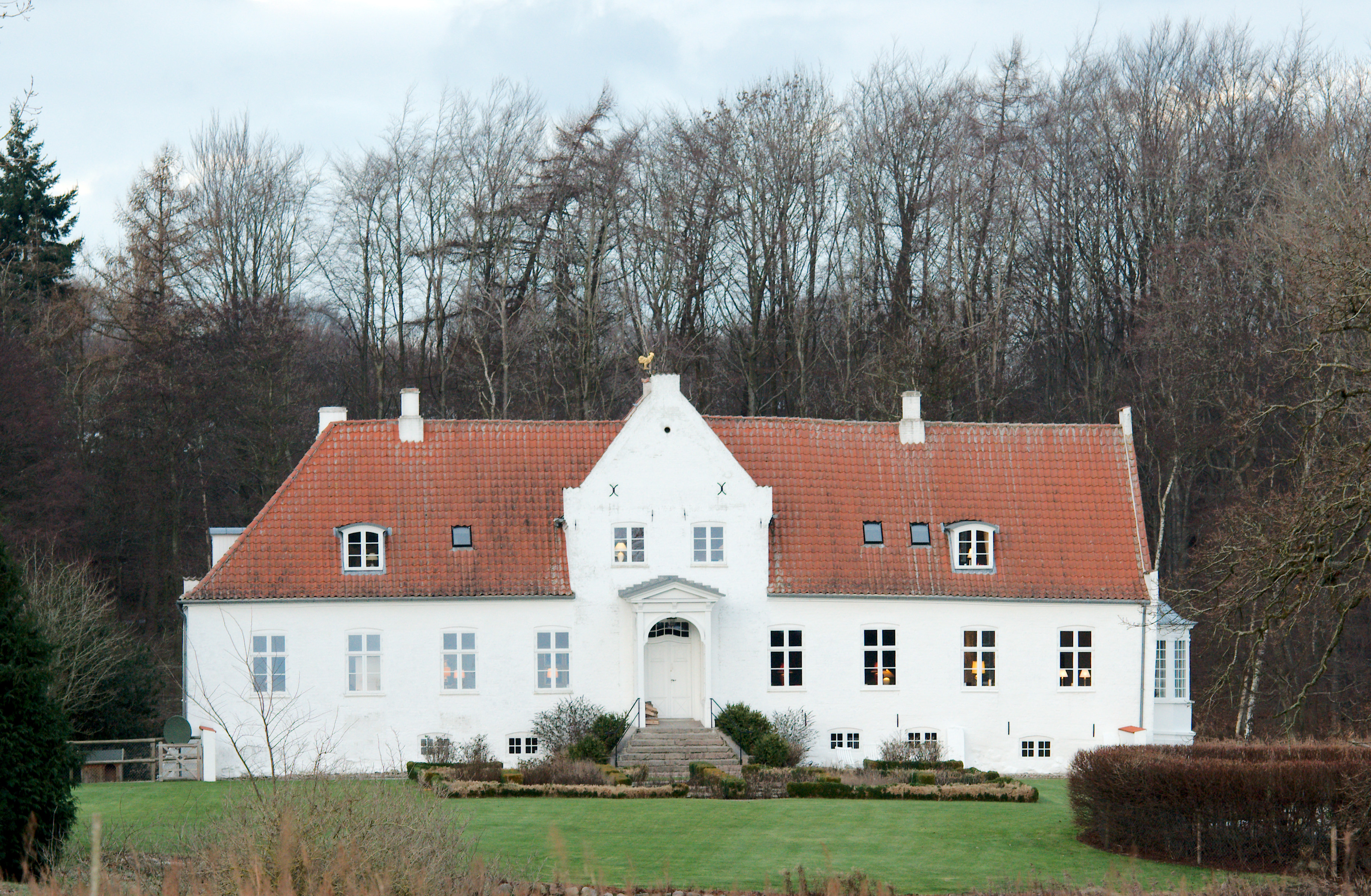 Søbo farmhouse